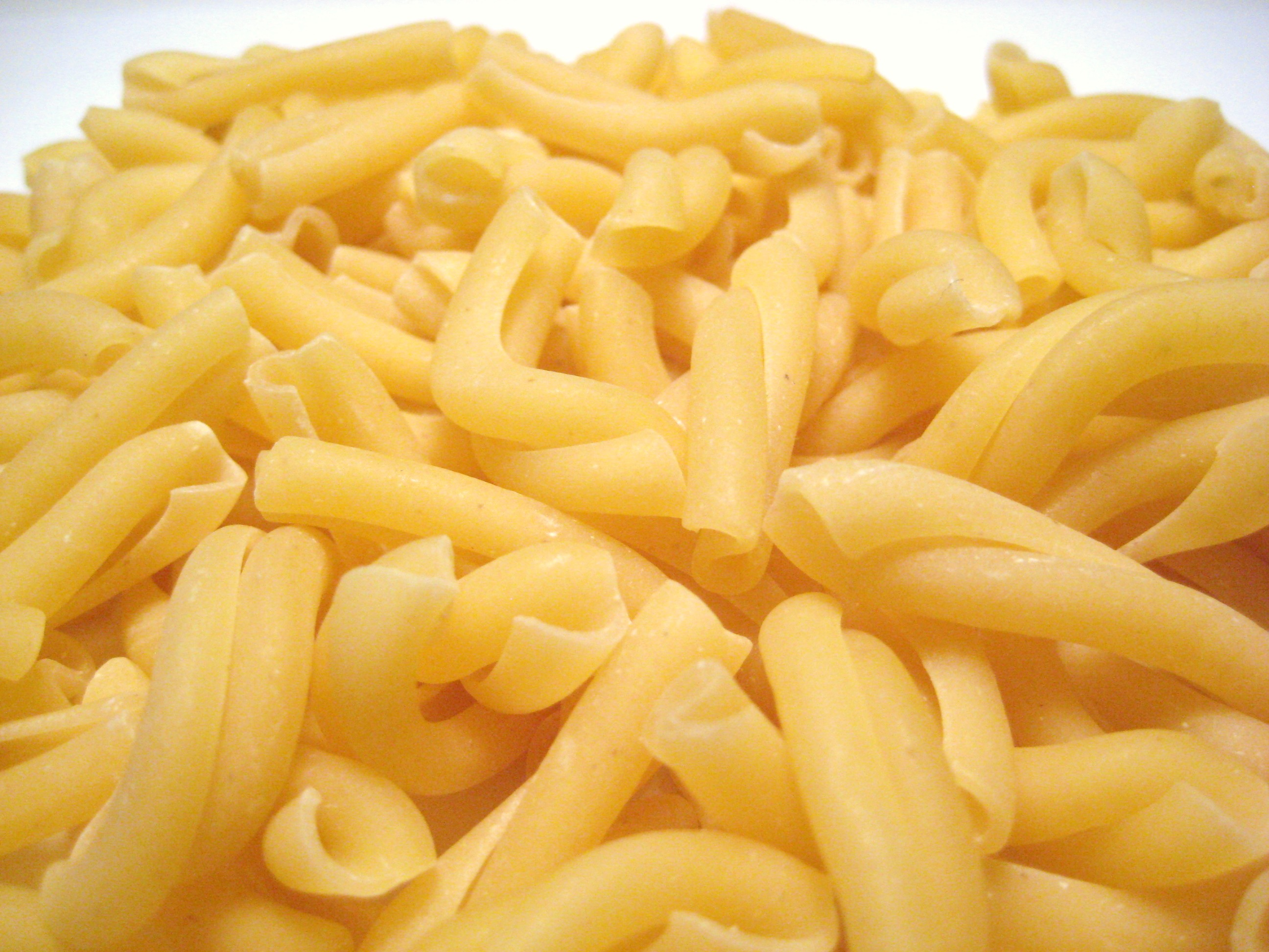 Strozzapreti pasta